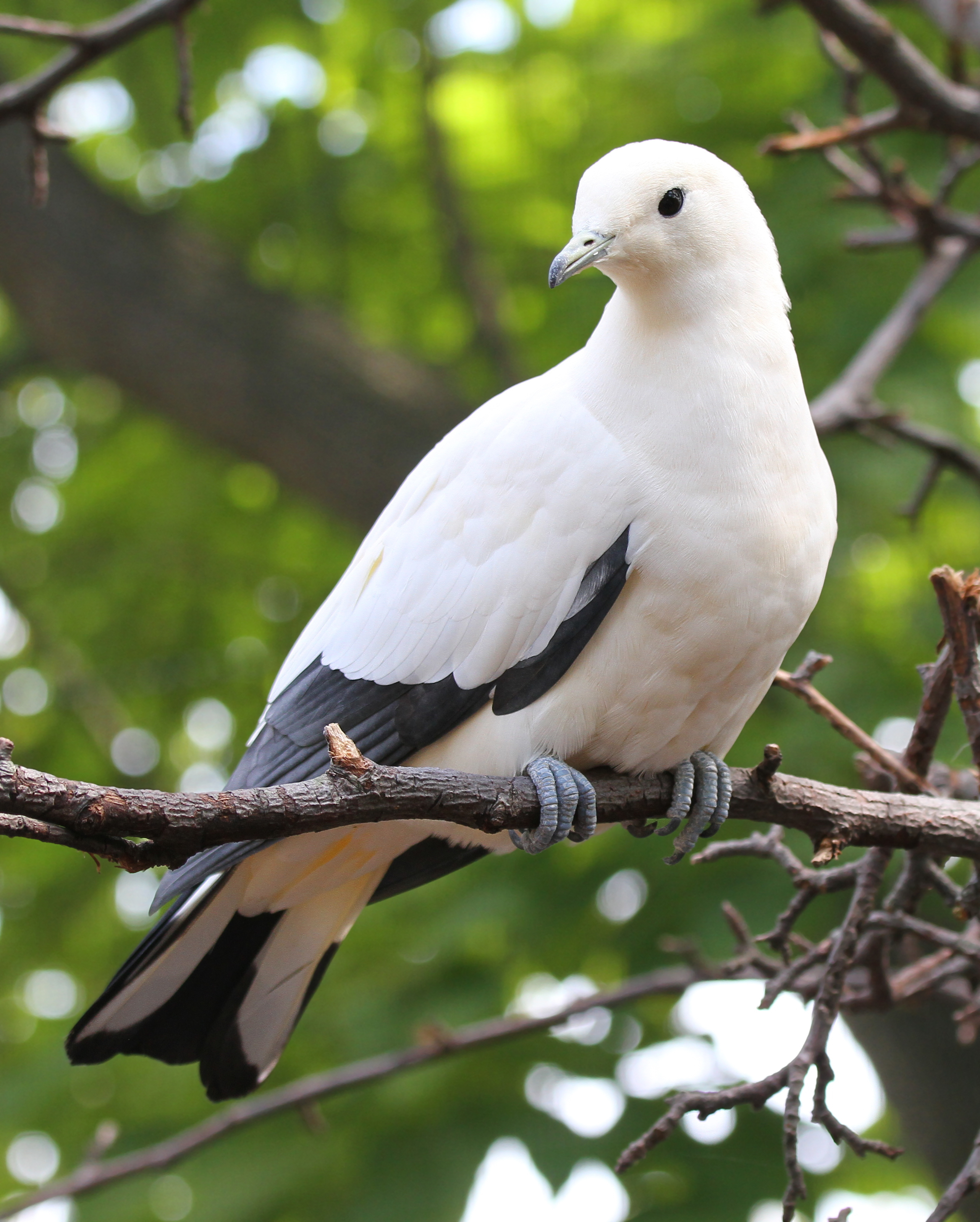 Pied Imperial Pigeon at the Cincinnati Zoo and Botanical Garden